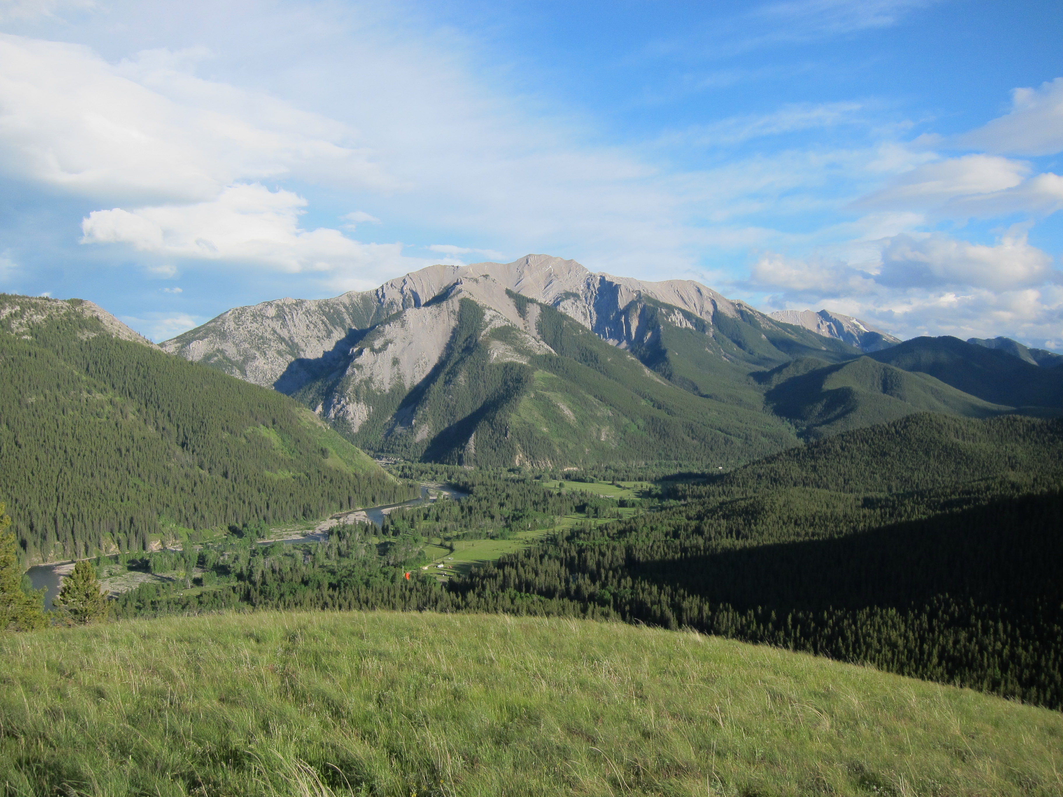 Northwest side of Thunder Mountain, Livingstone Range, Alberta, Canada